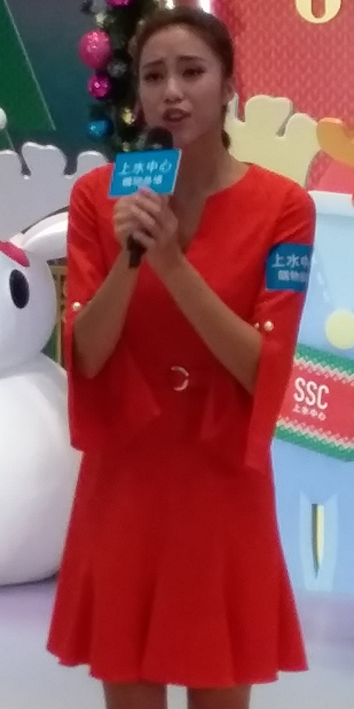 Tiffany Lau